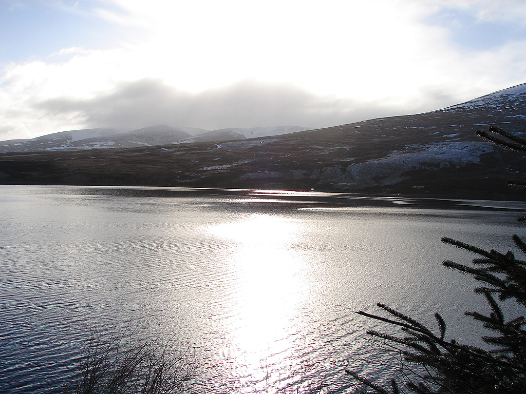 A view across Loch Ericht